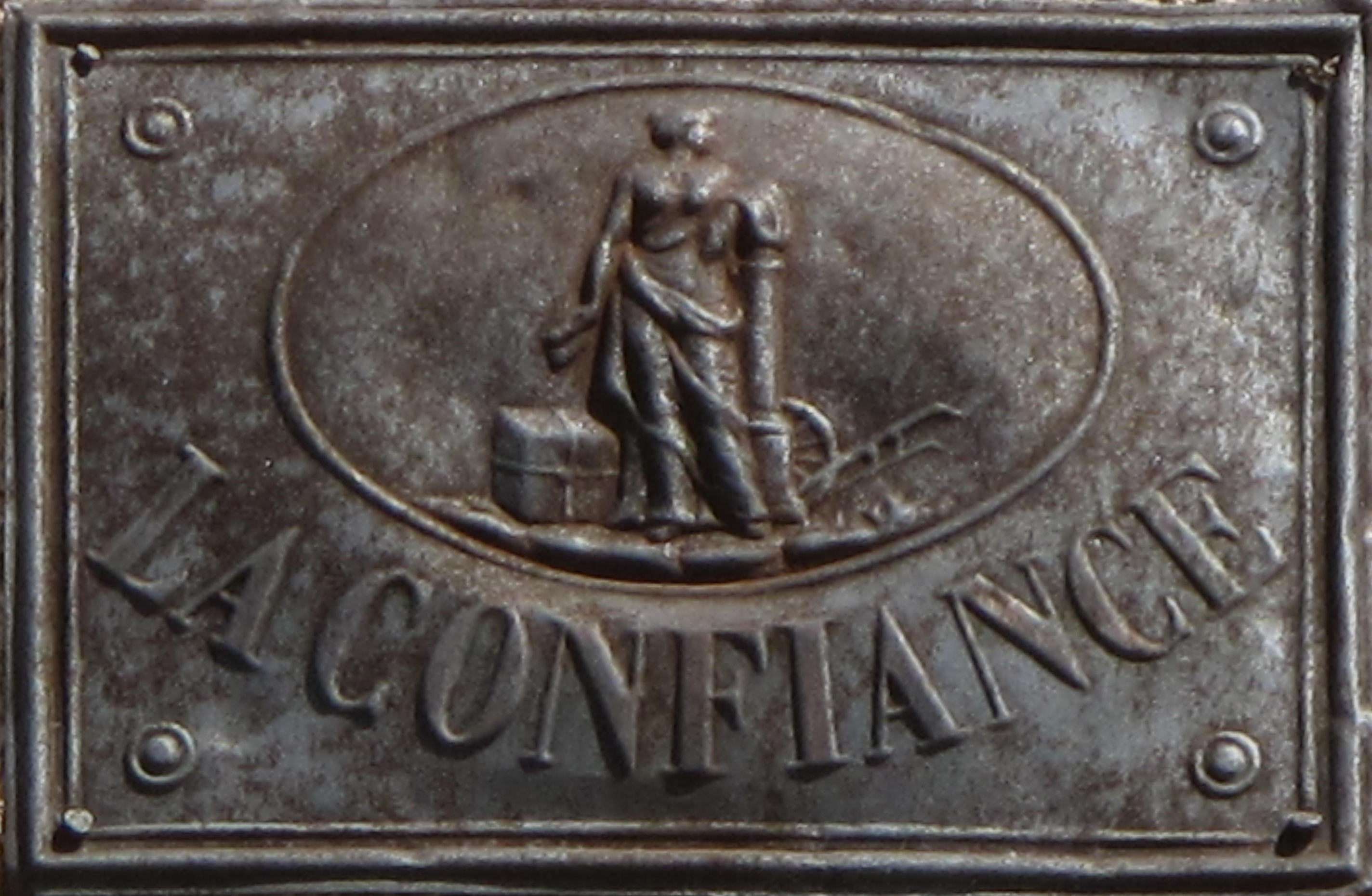 Metallic plaque on the wall of a house in Lacrost, Saône-et-Loire, France. The plaque shew that the house was owned by the former insurance company "La confiance" (="The truth")